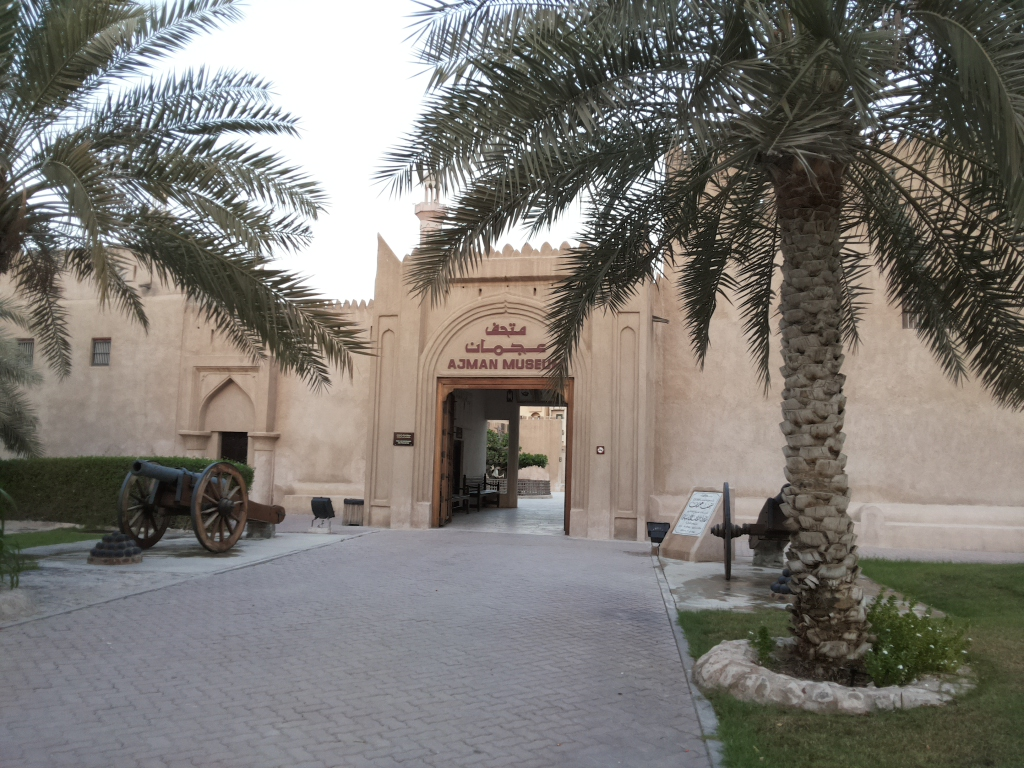 photos of ajman museum